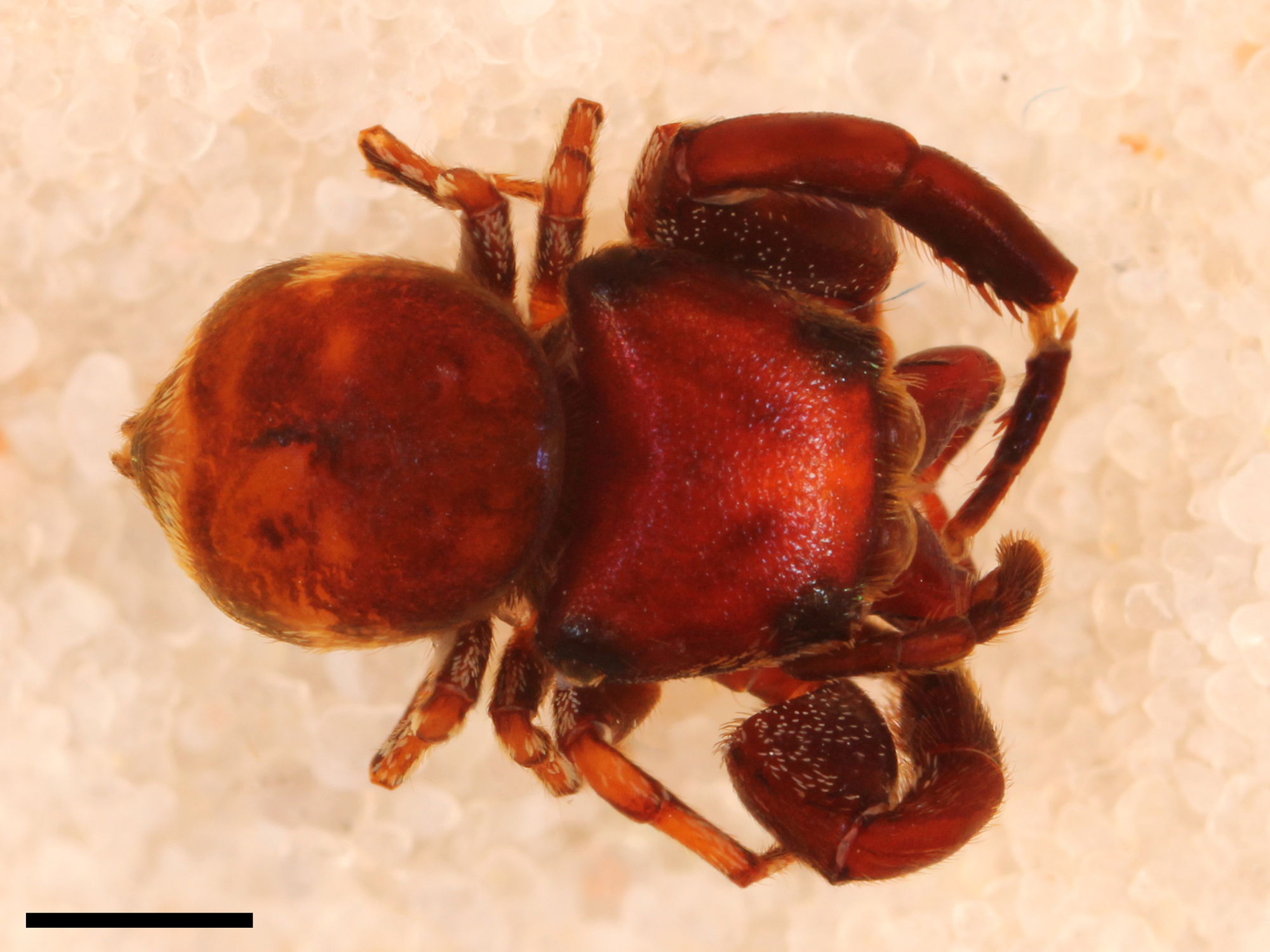 Male holotype of Rhetenor texanus jumping spider. Photographed under alcohol at the American Museum of Natural History. Specimen was collected on May 25, 1934, in Brownsville, Texas. Described by W. J. Gertsch in 1936.